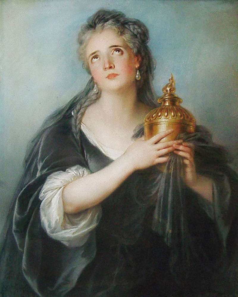 Adrienne Lecouvreur. This picture depicts Lecouvreur in the role of the tragic Cornelia in Pierre Corneille’s play The Death of Pompey (1642).